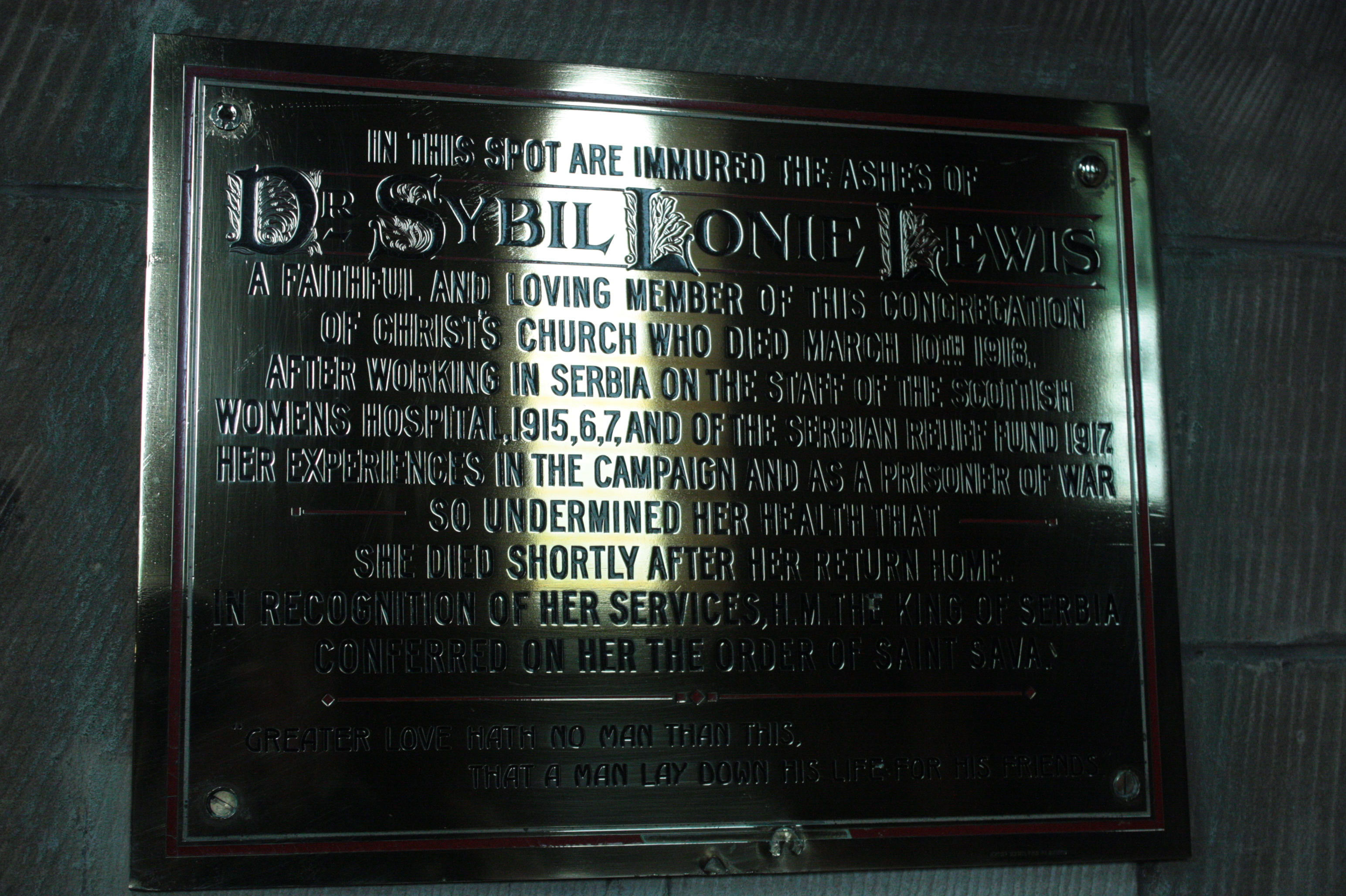 Plaque to Dr Sybil Lewis, Old St Pauls Church, Edinburgh